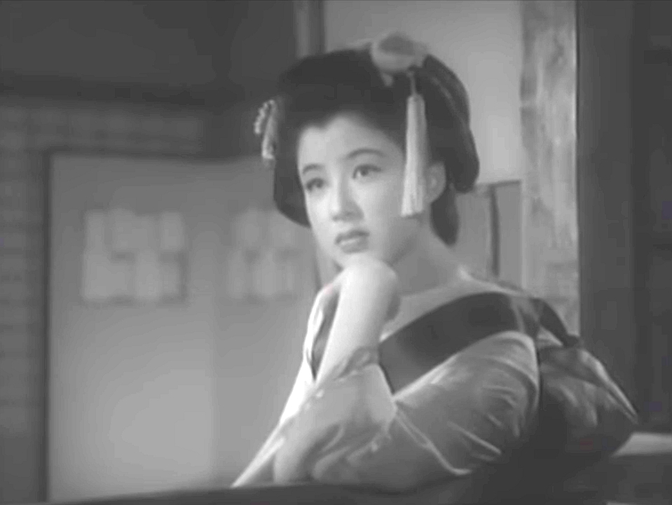 Kaoru Yachigusa in Tabi wa soyokaze (旅はそよ風) directed by Hiroshi Inagaki - 1953